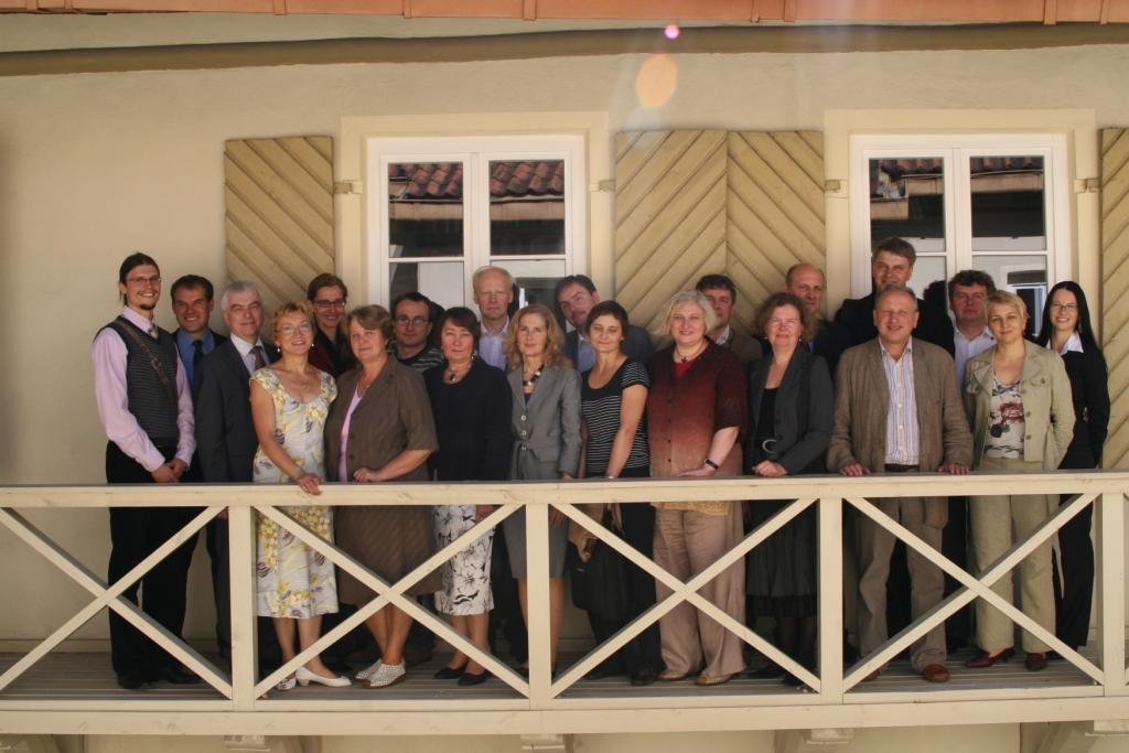 Taken on 2009 09 01 in the Institute of Journalism by Justinas Kirkutis.